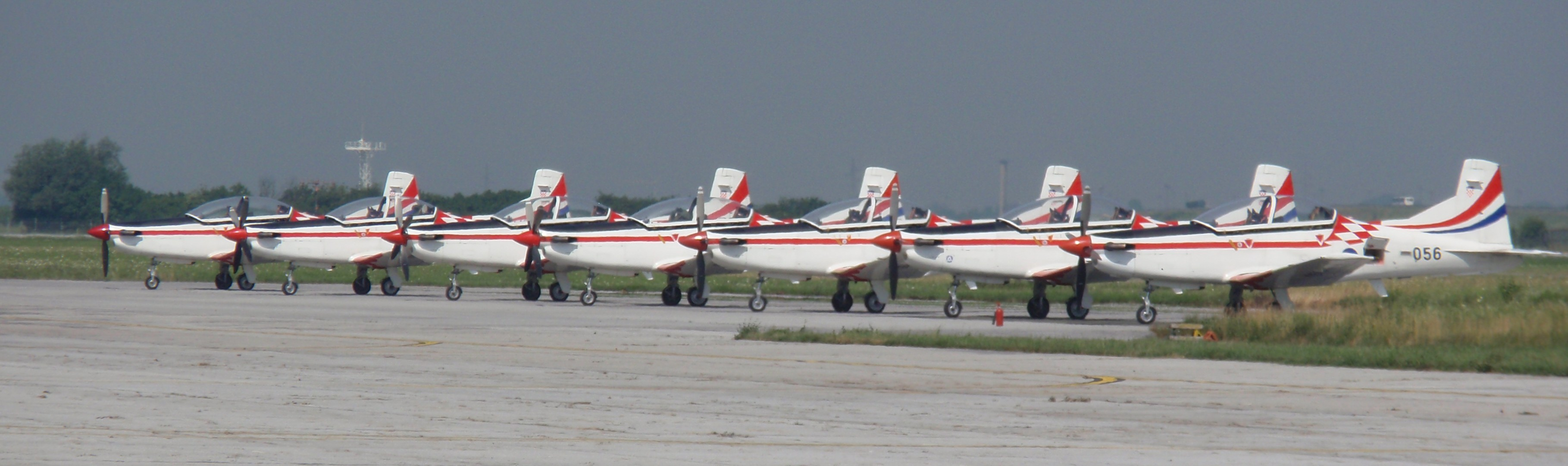 Croatian Pilatus PC-9